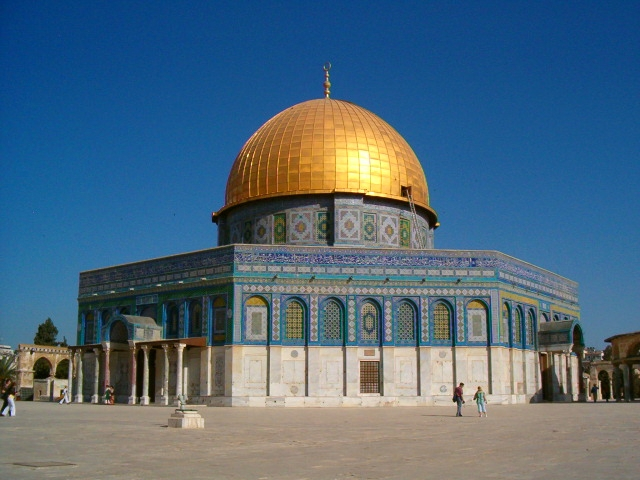 Yet another Dome of the Rock